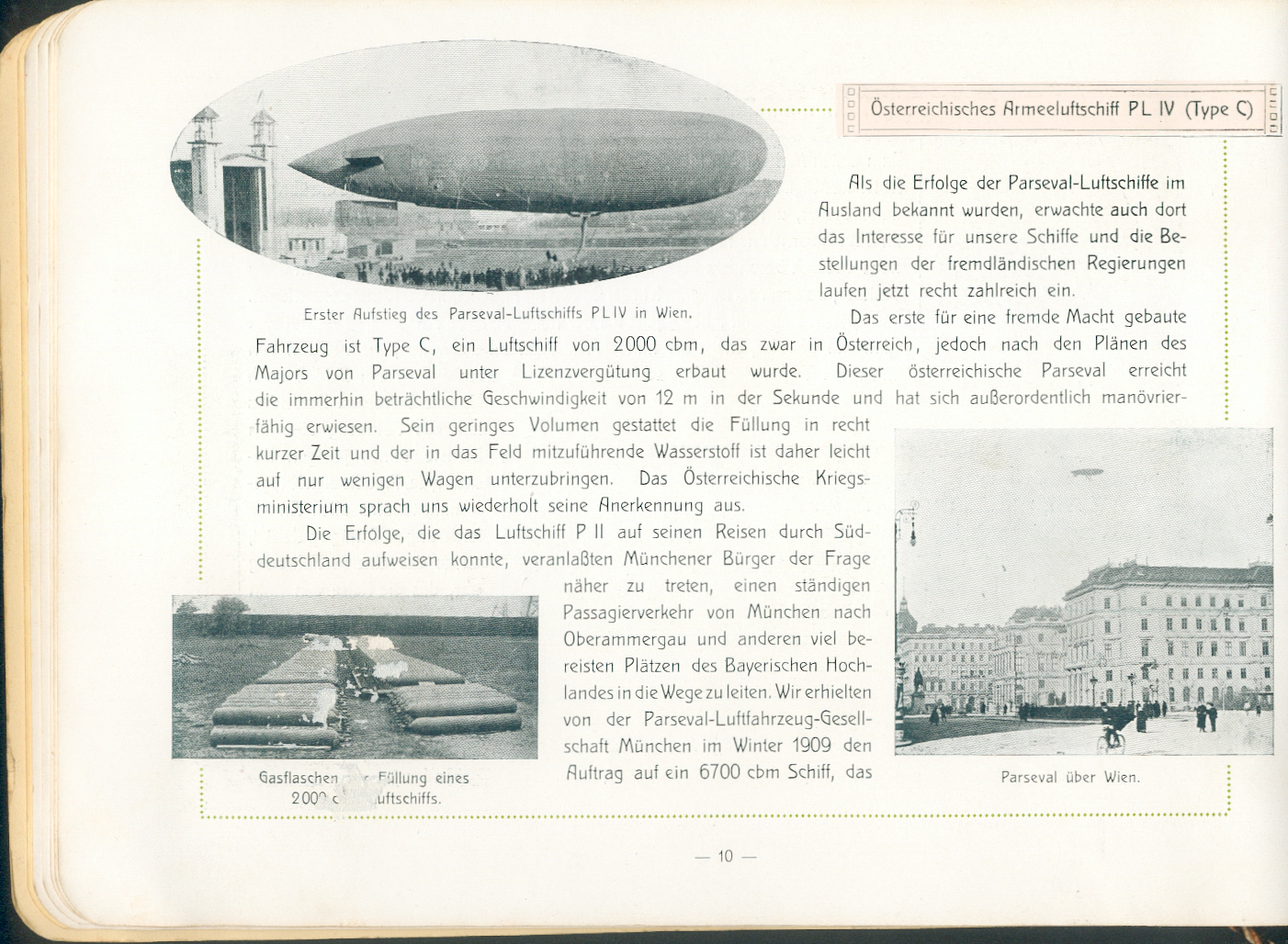 Page 10 of the Broschuere der Luftfahrzeug-GmbH showing PL4 landed at Vienna and flying over the city. Also shown are the hydrogen gas bottles needed to fill the 2000 cubic metre airship.